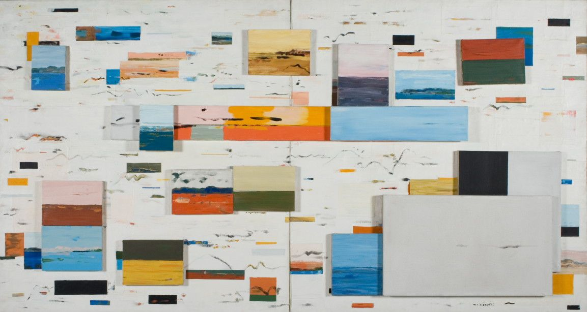 Bez tytułu (Untitled), oil painting by Tomasz Ciecierski